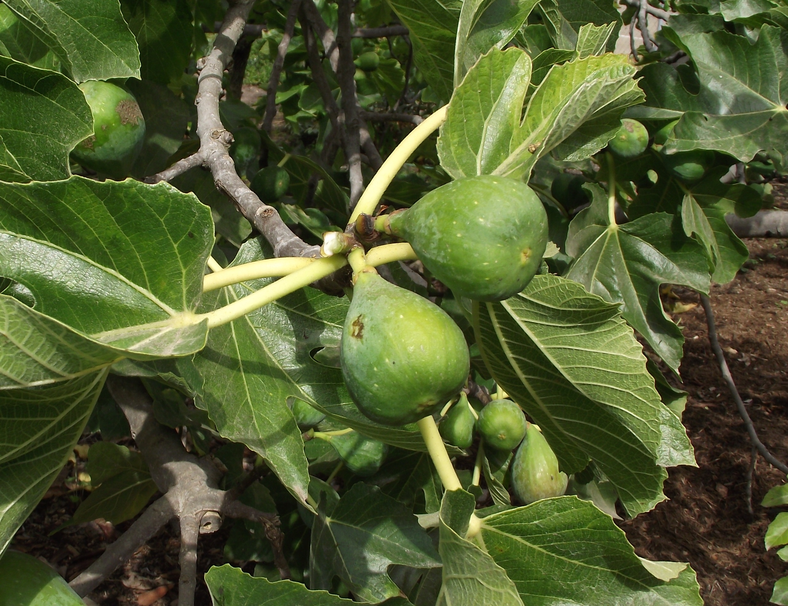 Ficus carica 'Flanders' at San Diego Botanic Garden, Encinitas, California, USA